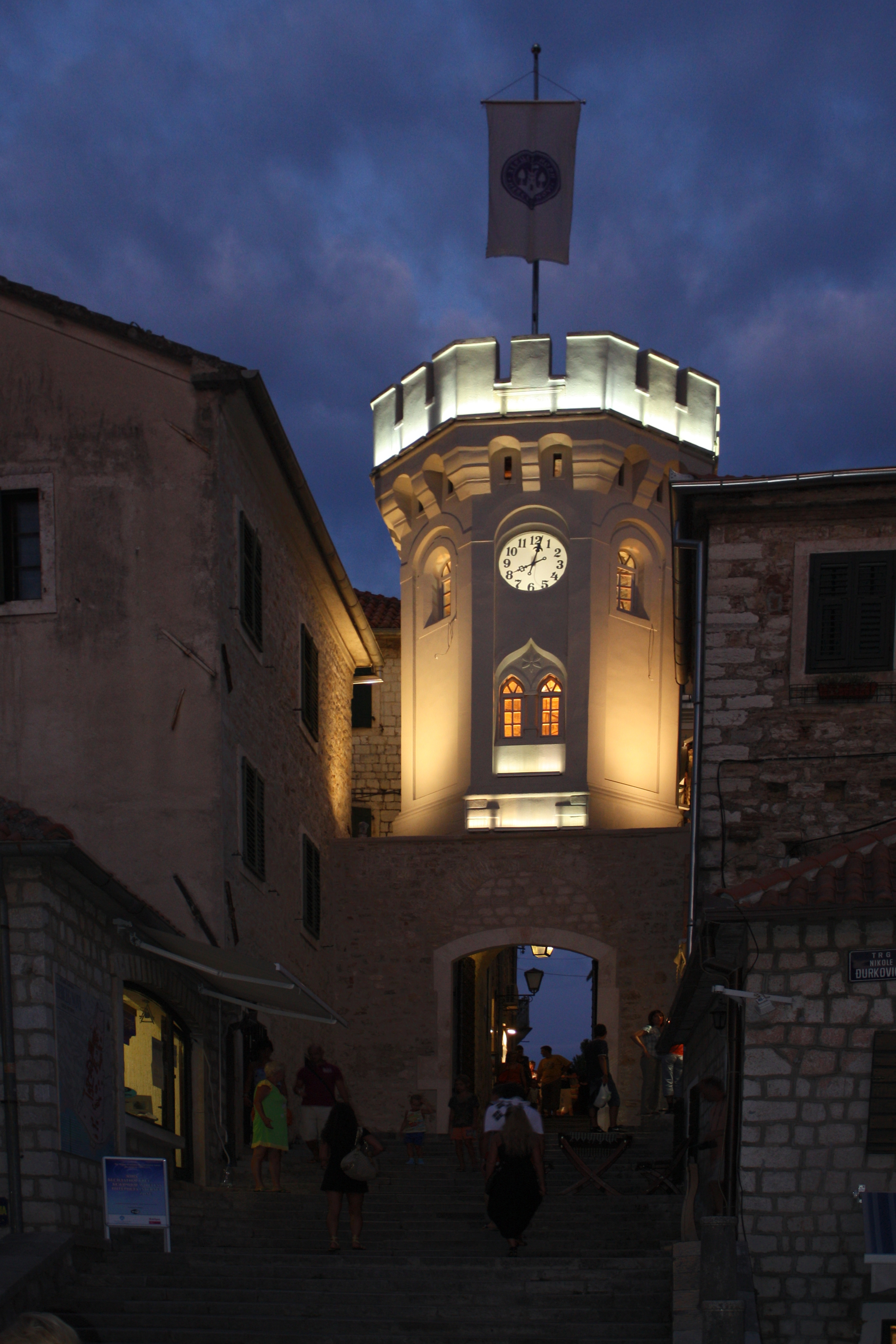 Herceg Novi, Montenegro - old town clock tower at night